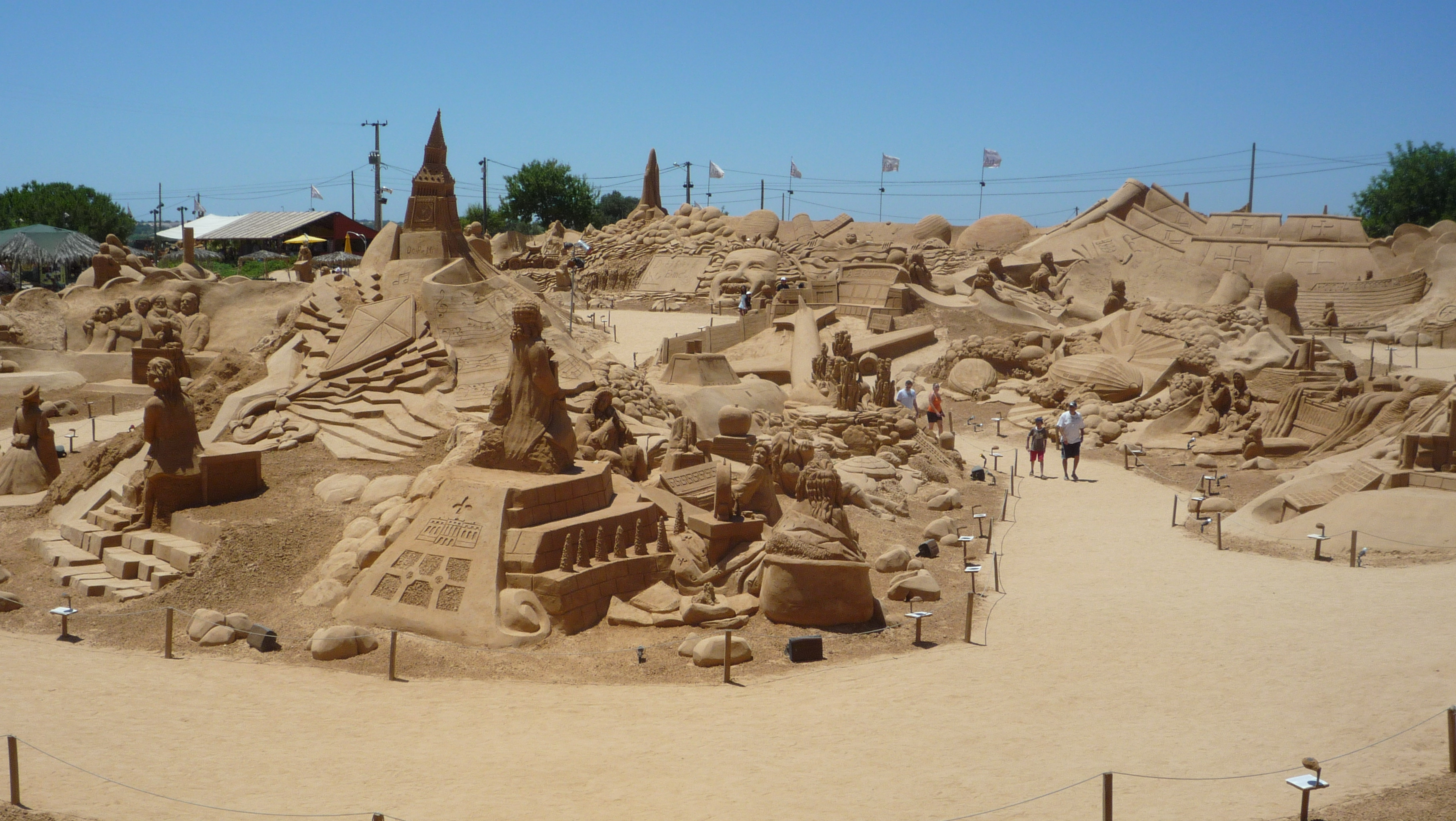 A general view of the Seventh International Sand Sculpture Festival. In the foreground is the Baroque exhibit, behind that the clocks piece. The face in the background, centre is Albert Einstein.